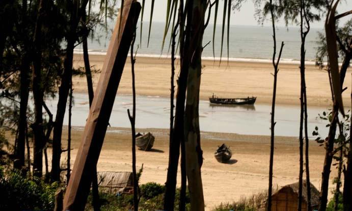 Coastal forest